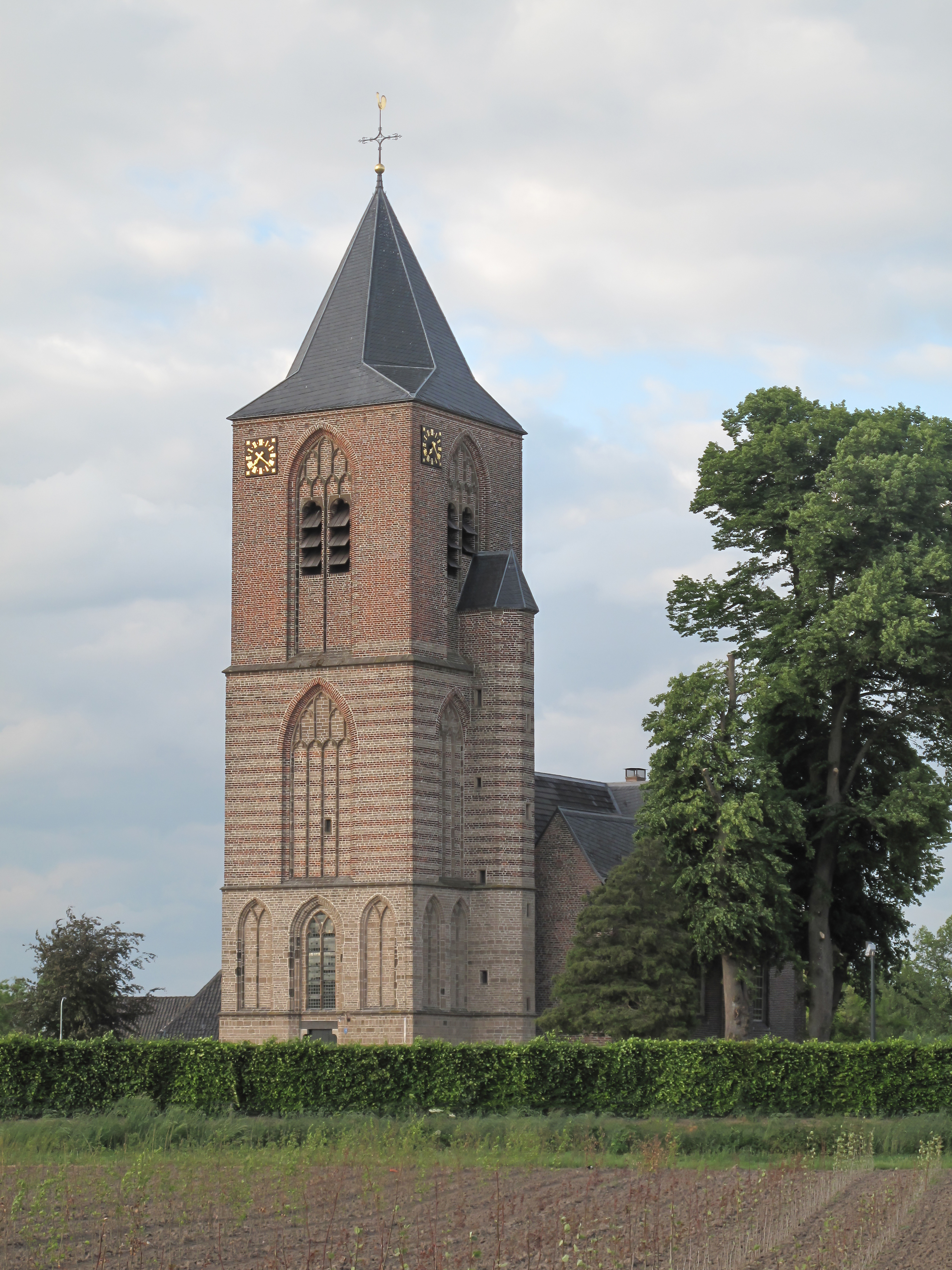 Herveld, church RM36751